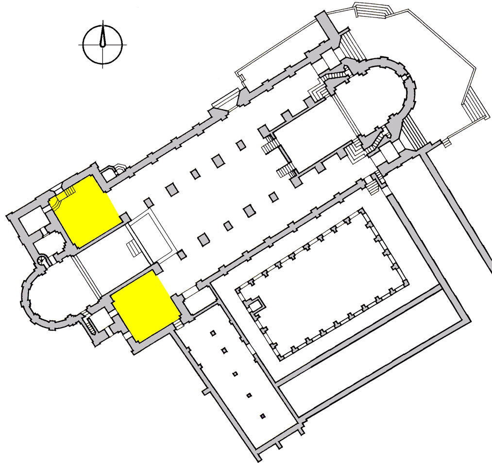 cathedral of Bamberg, Germany